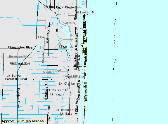 map of Palm Beach, Florida showing town boundaries